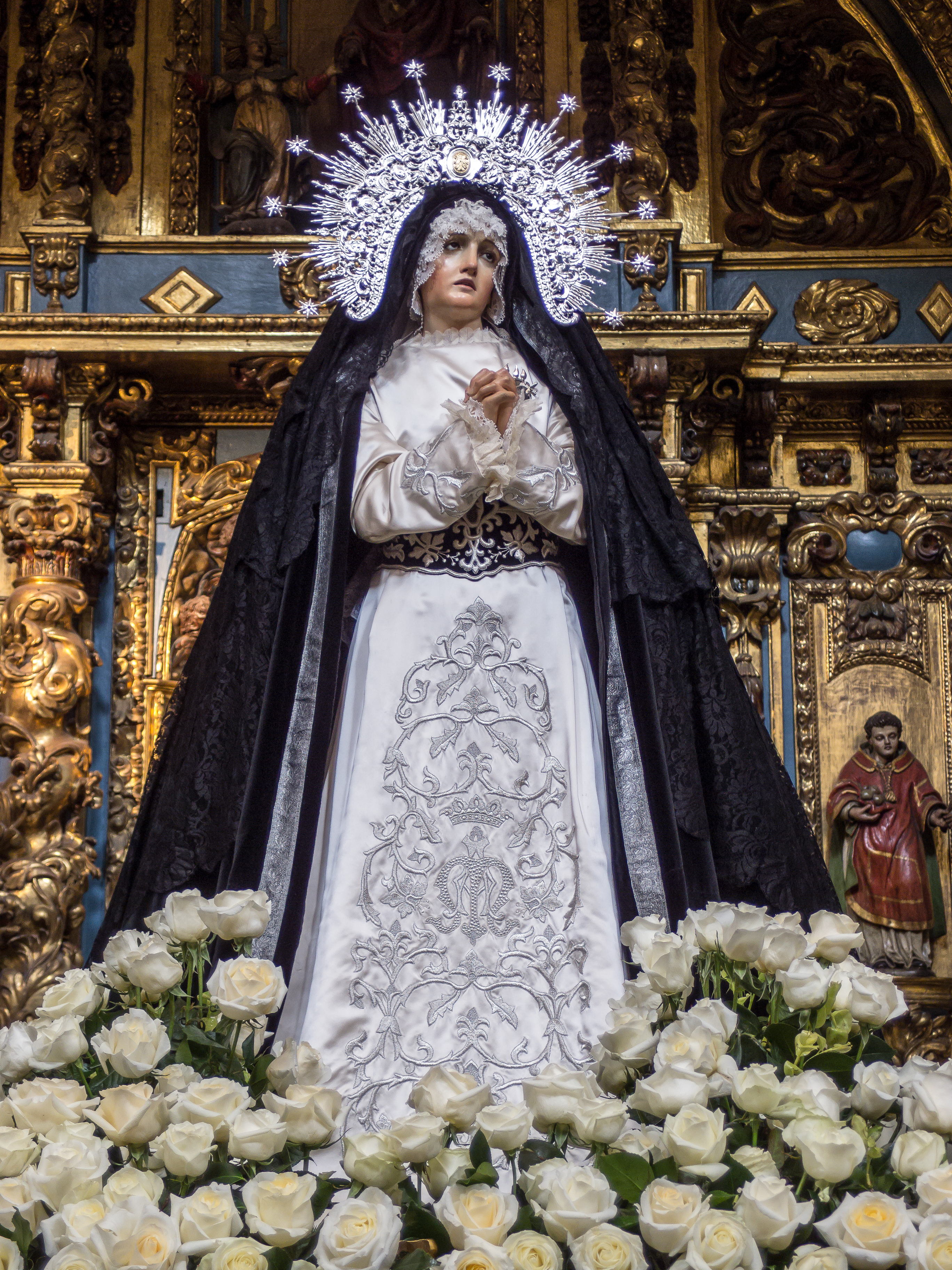 OLYMPUS DIGITAL CAMERA This is a photography of a Folklore festival in Spain (Wikidata id Q9075892).